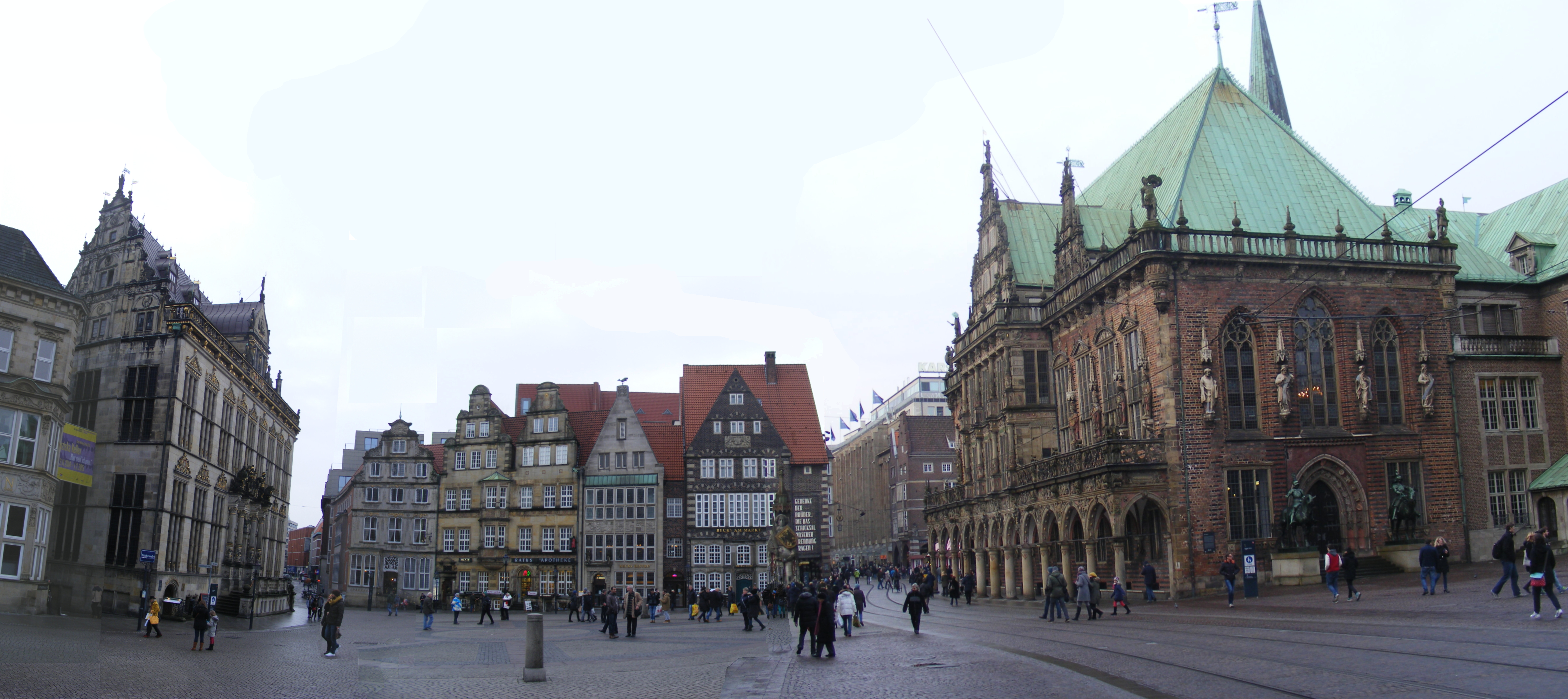 Photomontage of Merian's presentation of the market place of Bremen. In order to meet the wishes of the senate and the merchant guild of Bremen, Merian had had to construct an irrealistic view, as it was impossible to see the short fronts of both townhall and guildhall from the same point.